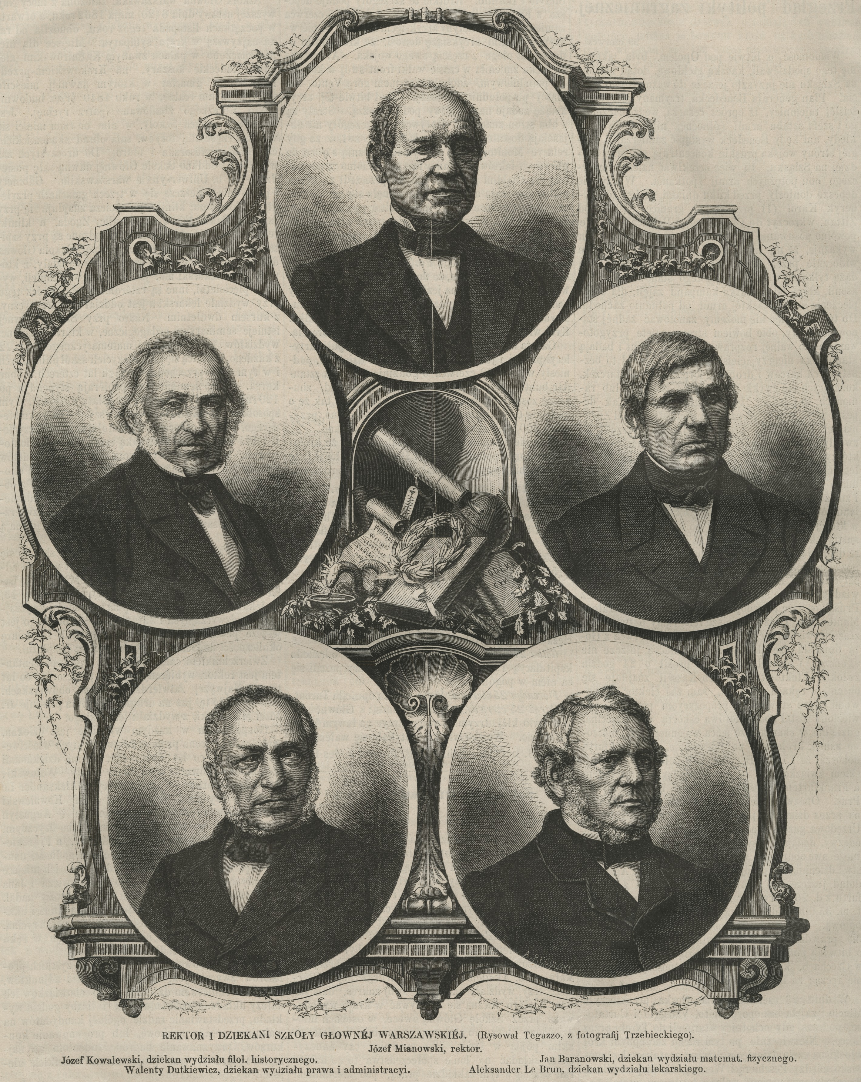 Józef Mianowski, rector of Szkoła Głowna Warszawska (top). Józef Kowalewski, deacon of phil. historical dept. (top left); Jan Baranowski, deacon of math.-phisics dept. (top right); Walenty Dutkiewicz, deacon of law and administr. dept. (bottom left), Aleksander Le Brun, deacon of medical dept. (bottom right). A drawing in Tygodnik Illustrowany magazine, Poland, 1866.